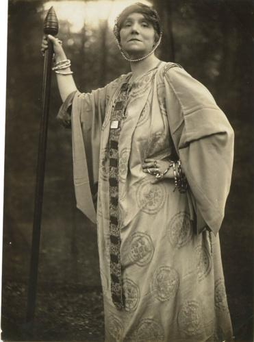 6 X 8 inch silver print, Portrait of Yvette Guilbert